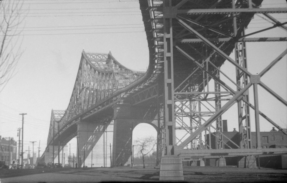 We see the structure of the Jacques Cartier Bridge in Montreal.